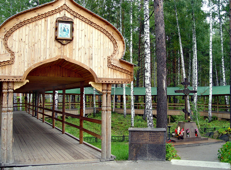 The mine shaft at Ganina Yama)